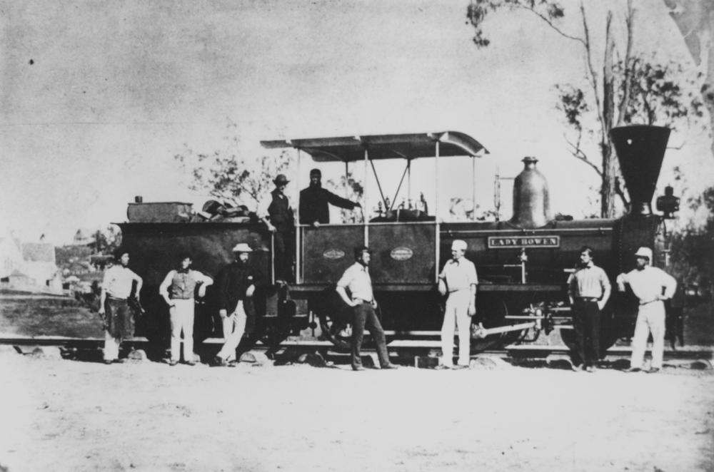 Railway workers posing with the Lady Bowen locomotive, ca. 1865